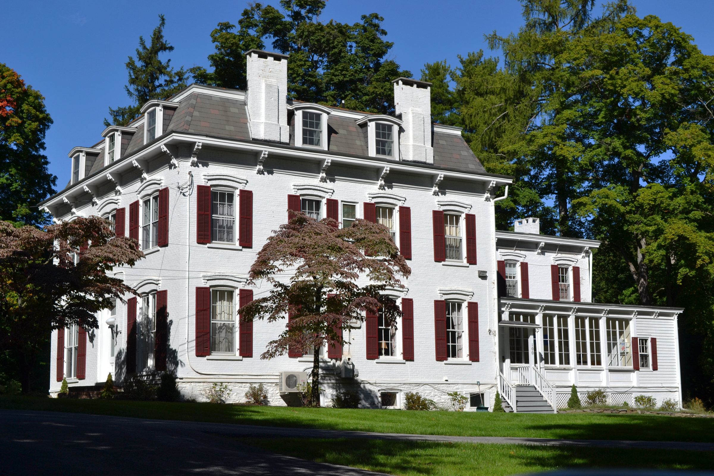 Thompson House 100 S. Randolph Ave, Poughkeepsie, NY. Western and Southern elevations.